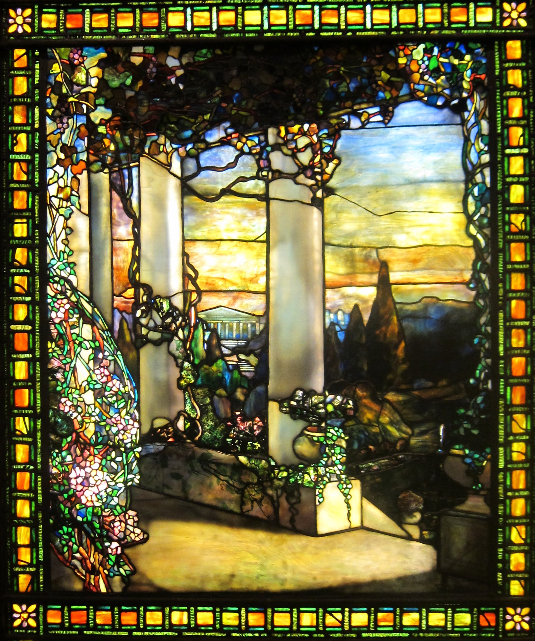 Landscape with a Greek Temple, stained glass window designed by Louis Comfort Tiffany, c. 1900, Cleveland Museum of Art